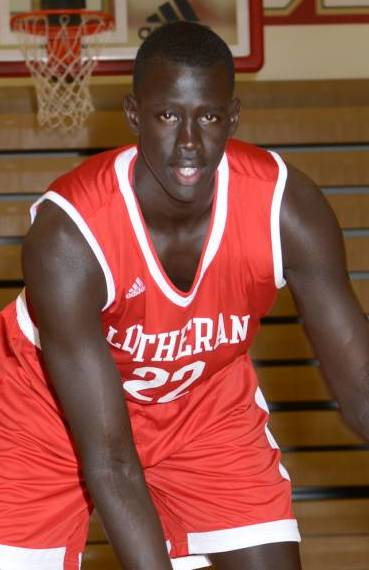 Makur Maker with Orange Lutheran High School in December 2018